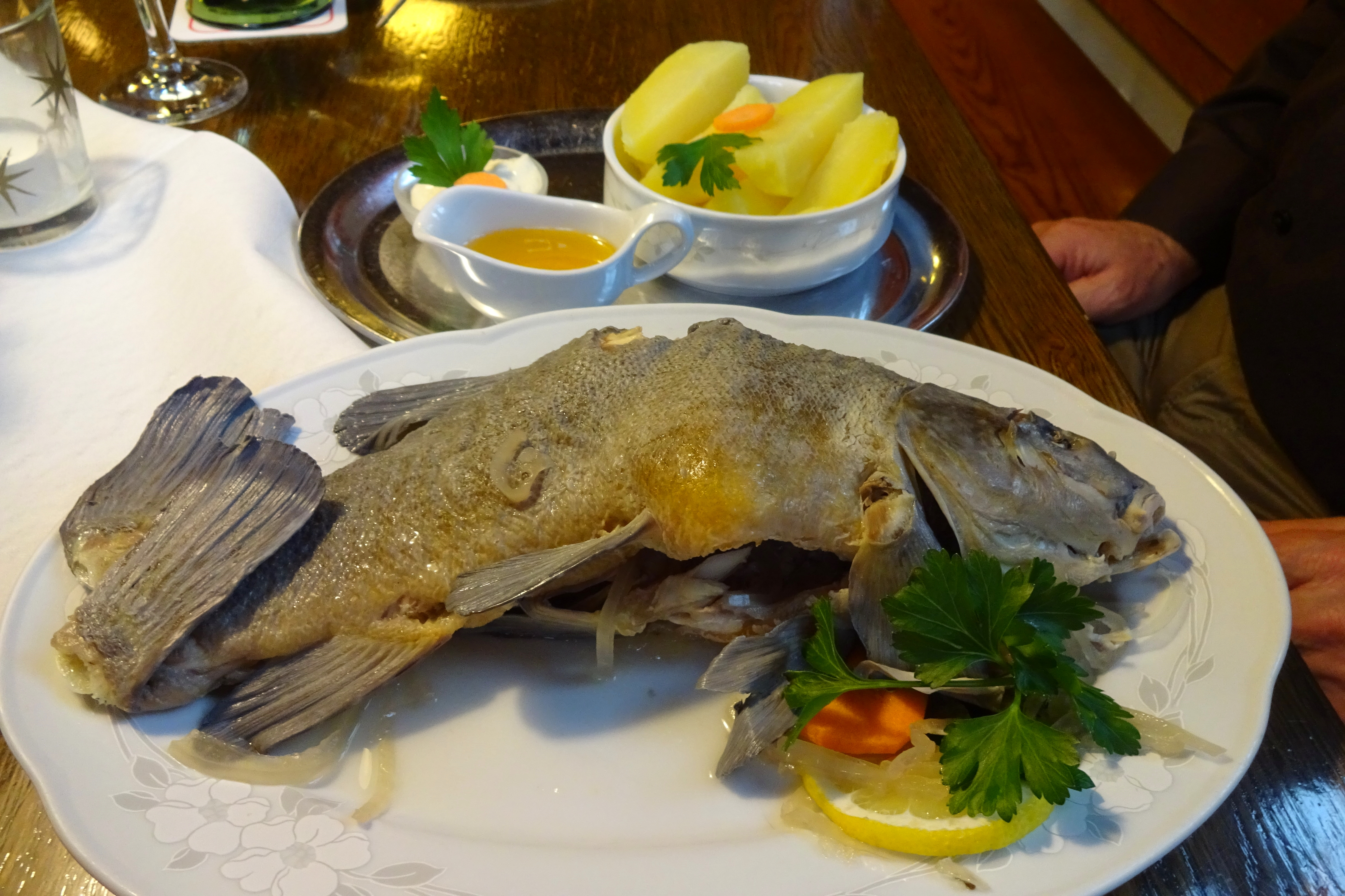 Poached Tench with salt potatoes, liquid butter and horseradish. Photographed in the Fischküche forester in Möhrendorf.